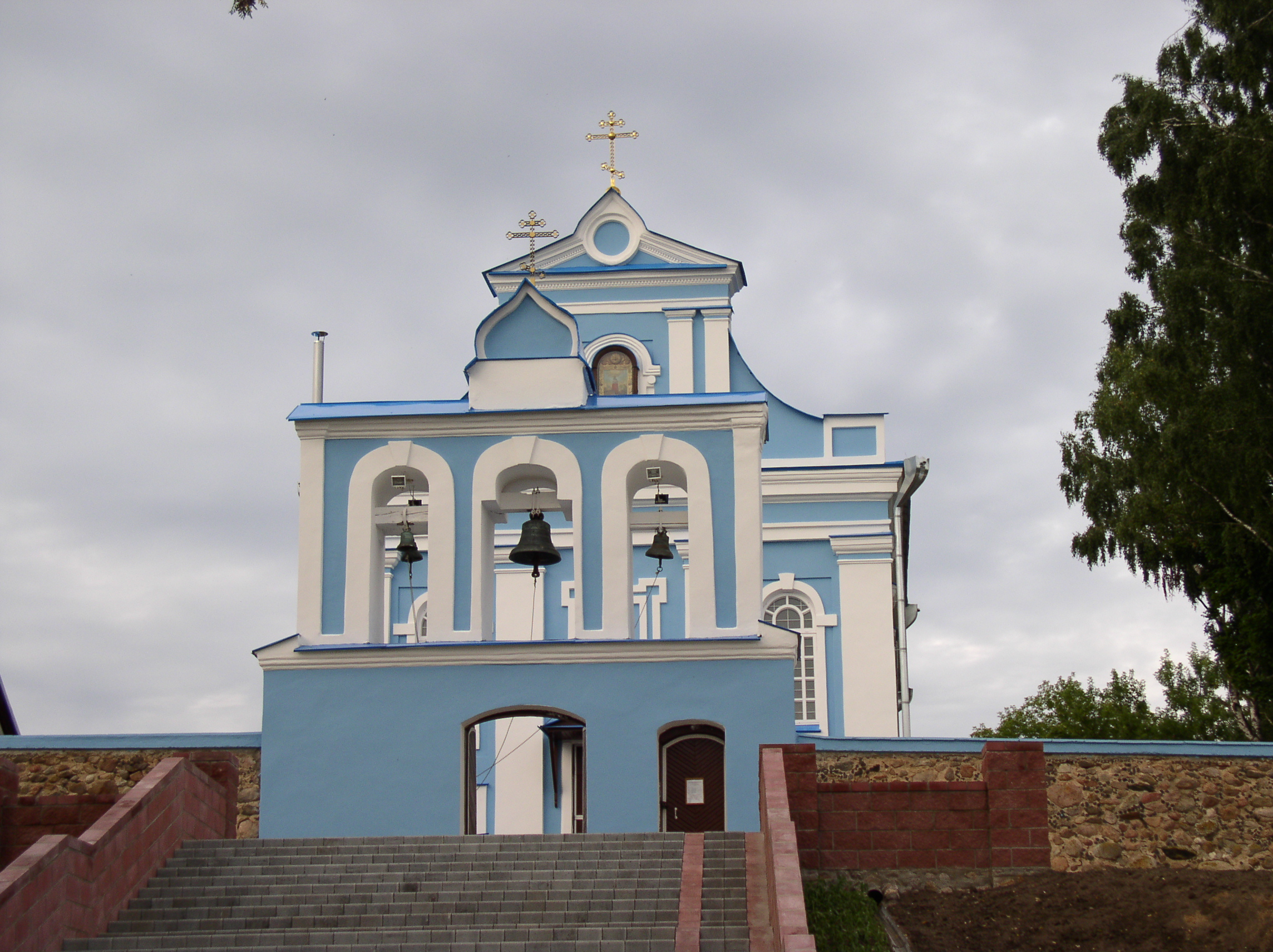 Church of Saint Anne, Stowbtsy, Belarus.